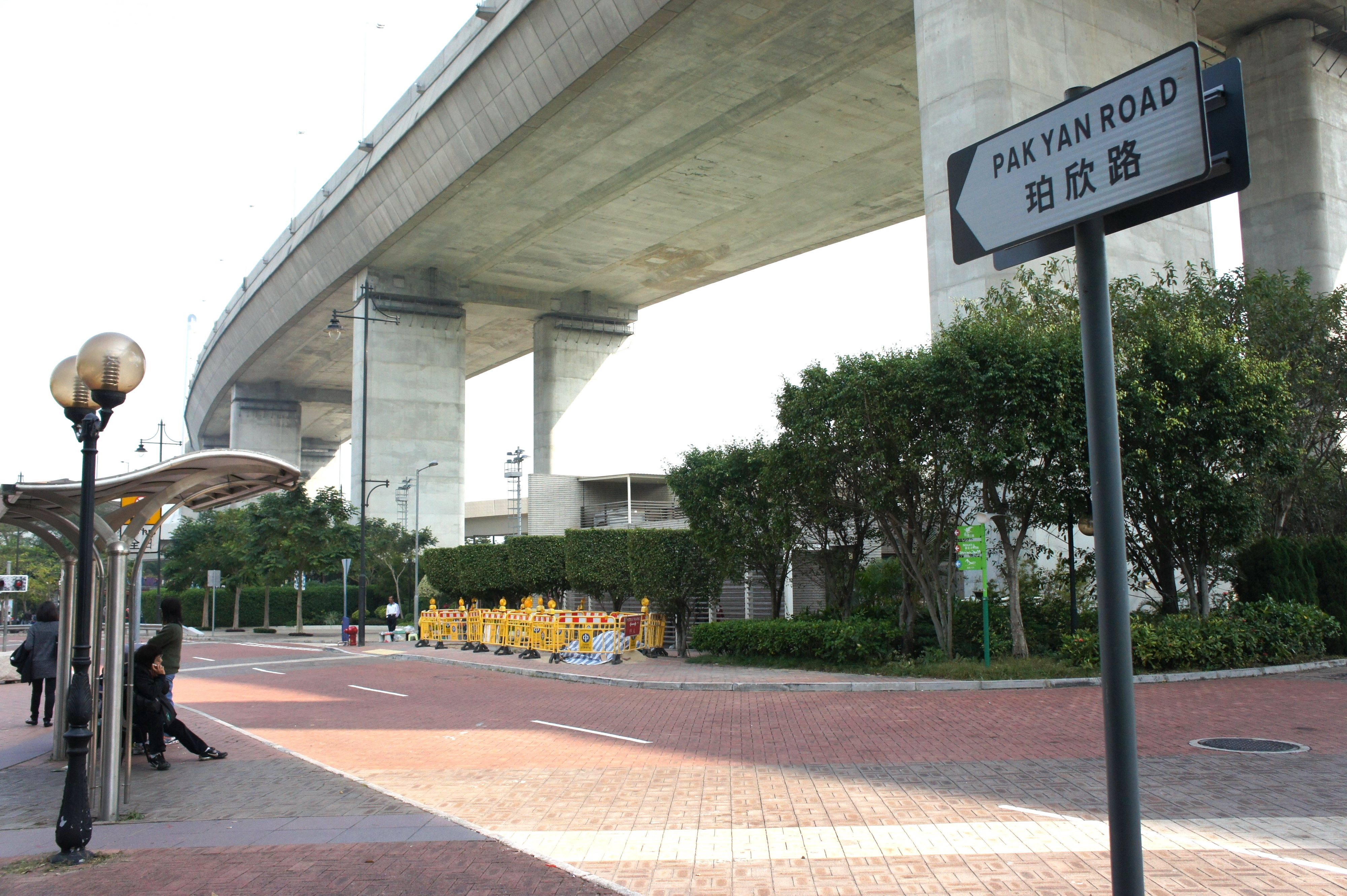 Pak Yan Road, Ma Wan, Hong Kong. Ma Wan (Pak Yan Road) Bus Terminus is on the left.